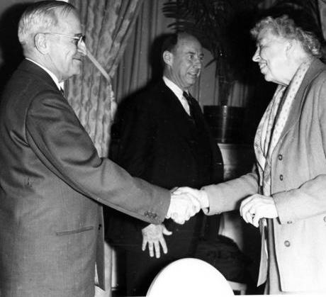 From left to right, former President Harry S. Truman, Adlai Stevenson, and former First Lady Eleanor Roosevelt at the 1956 Democratic National Convention in Chicago, Illinois.